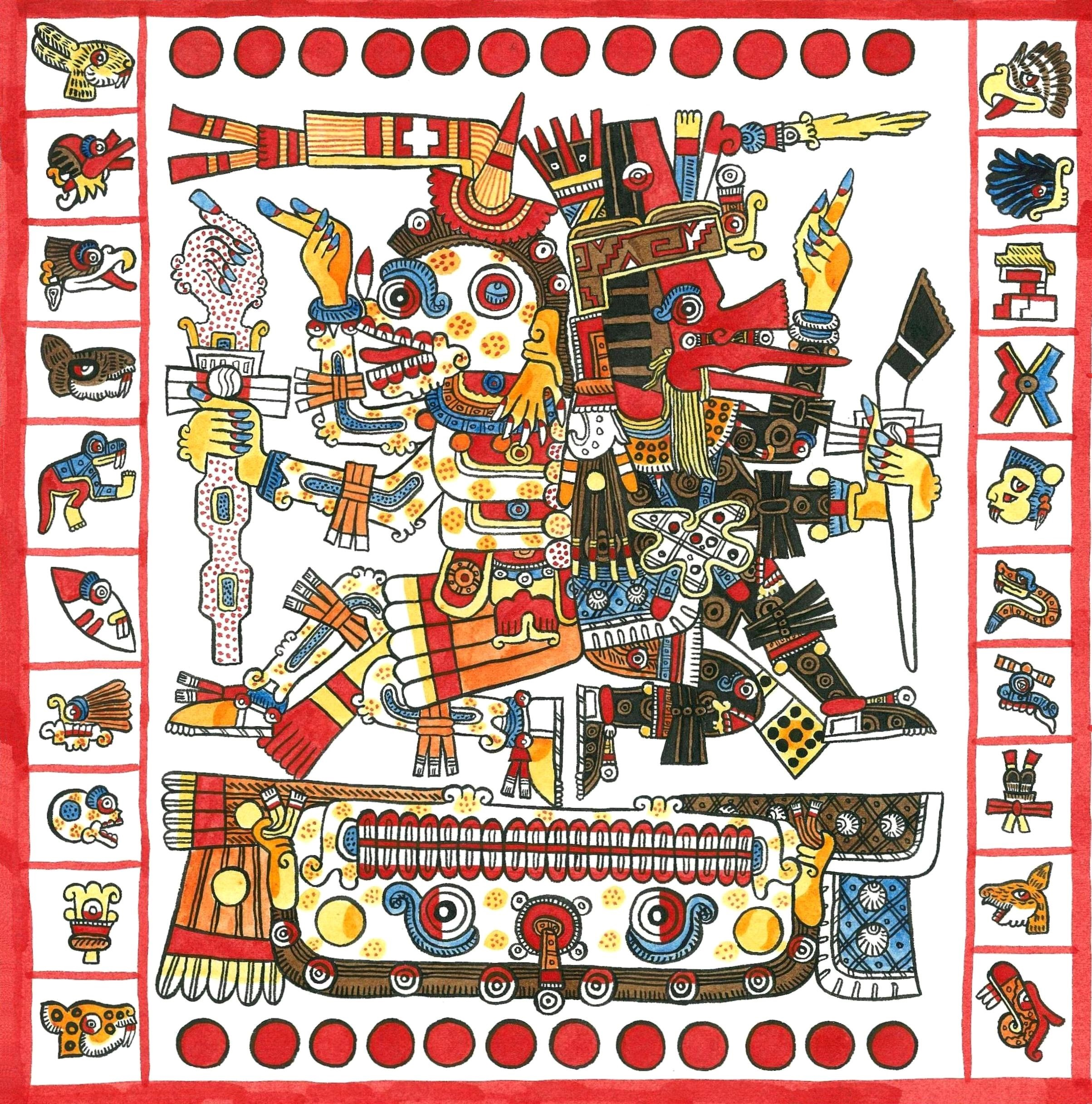 Detail of Codex Borgia. Drawing by Lacambalam.